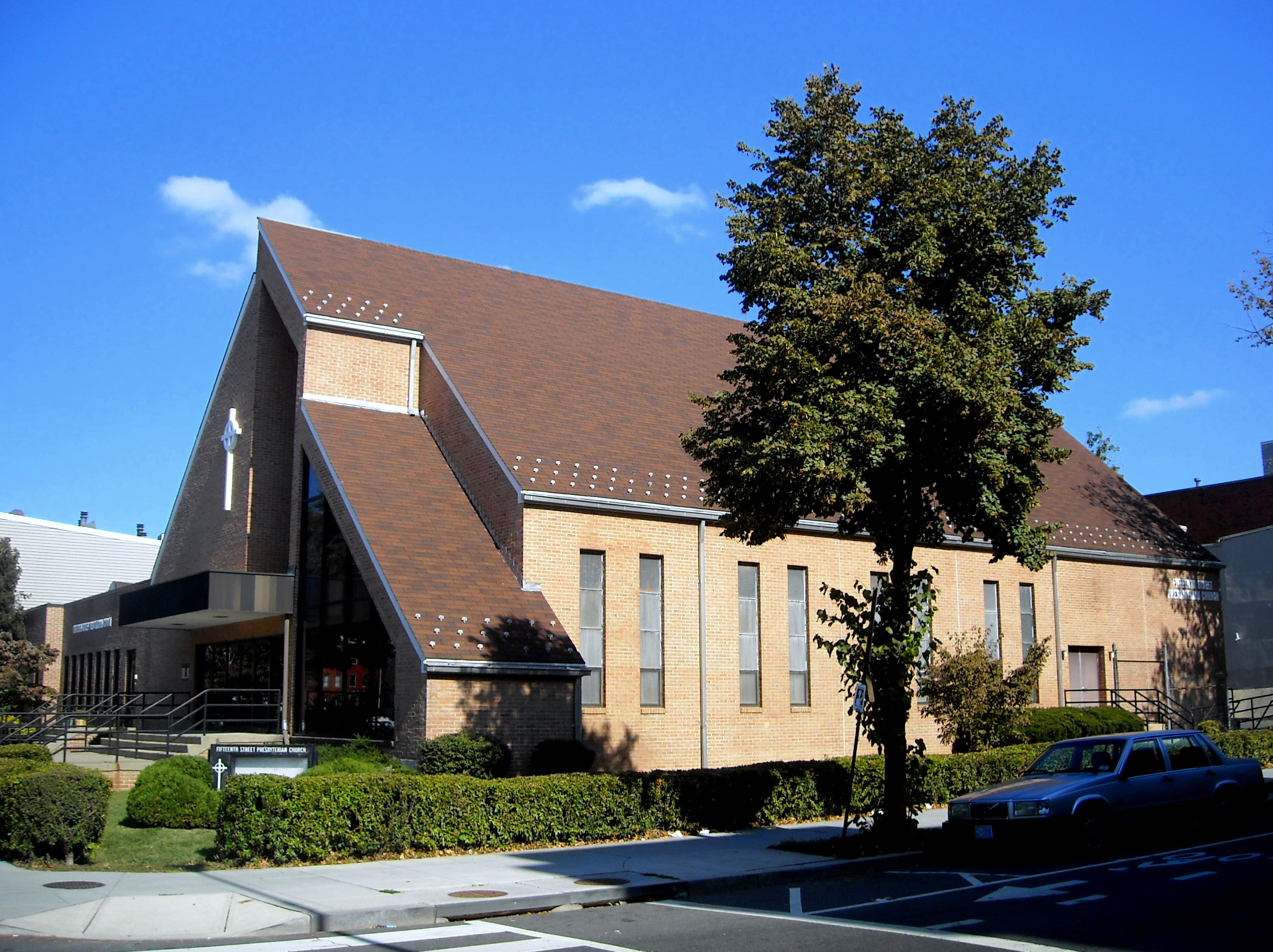 Fifteenth Street Presbyterian Church located at 1701 15th Street, NW in Washington The congregation was founded in 1841 as the First Colored Presbyterian Church, and their current building was constructed in 1979. You can view the website here